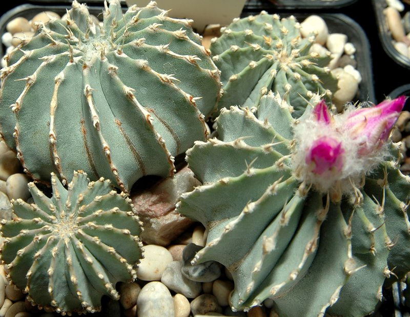 Picture taken at [1]